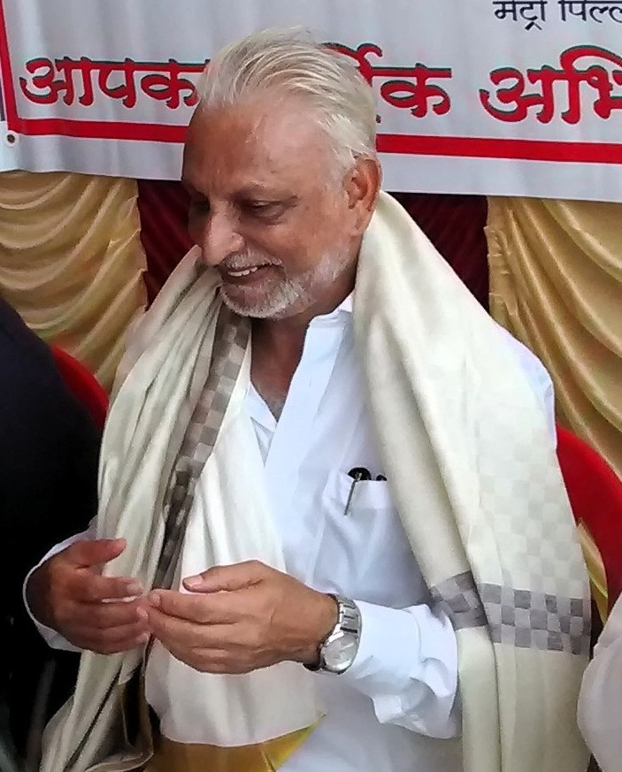 Sri M during walk of Hope campaign in Bangalore